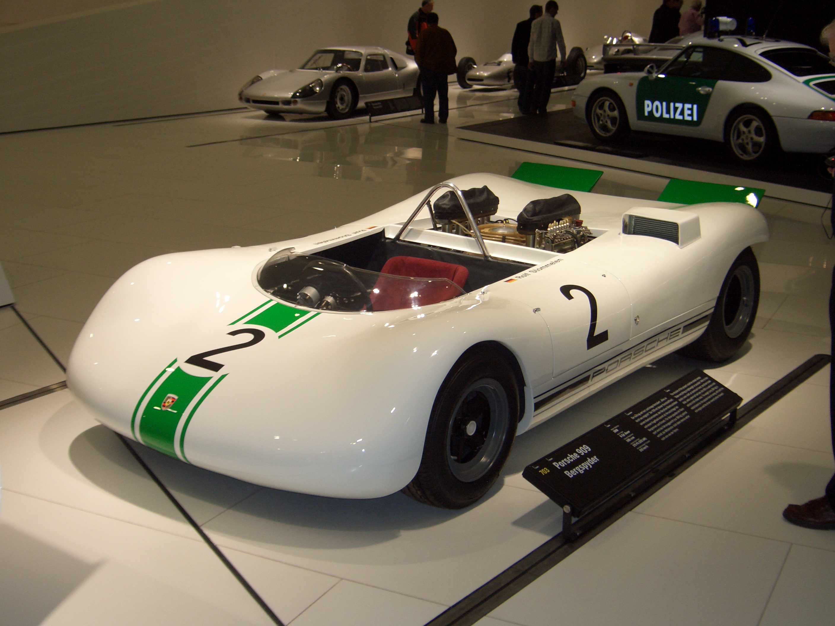 see filename for despcription - seen at Porsche Museum Native namePorsche-MuseumLocationStuttgartCoordinates48° 50′ 07″ N, 9° 09′ 06″ E Established1976 (old museum) 2009 (new museum)Web page control : Q328623 VIAF: 138511768 GND: 2087859-X SUDOC: 155641123 NKC: ko2015876799 institution QS:P195,Q328623